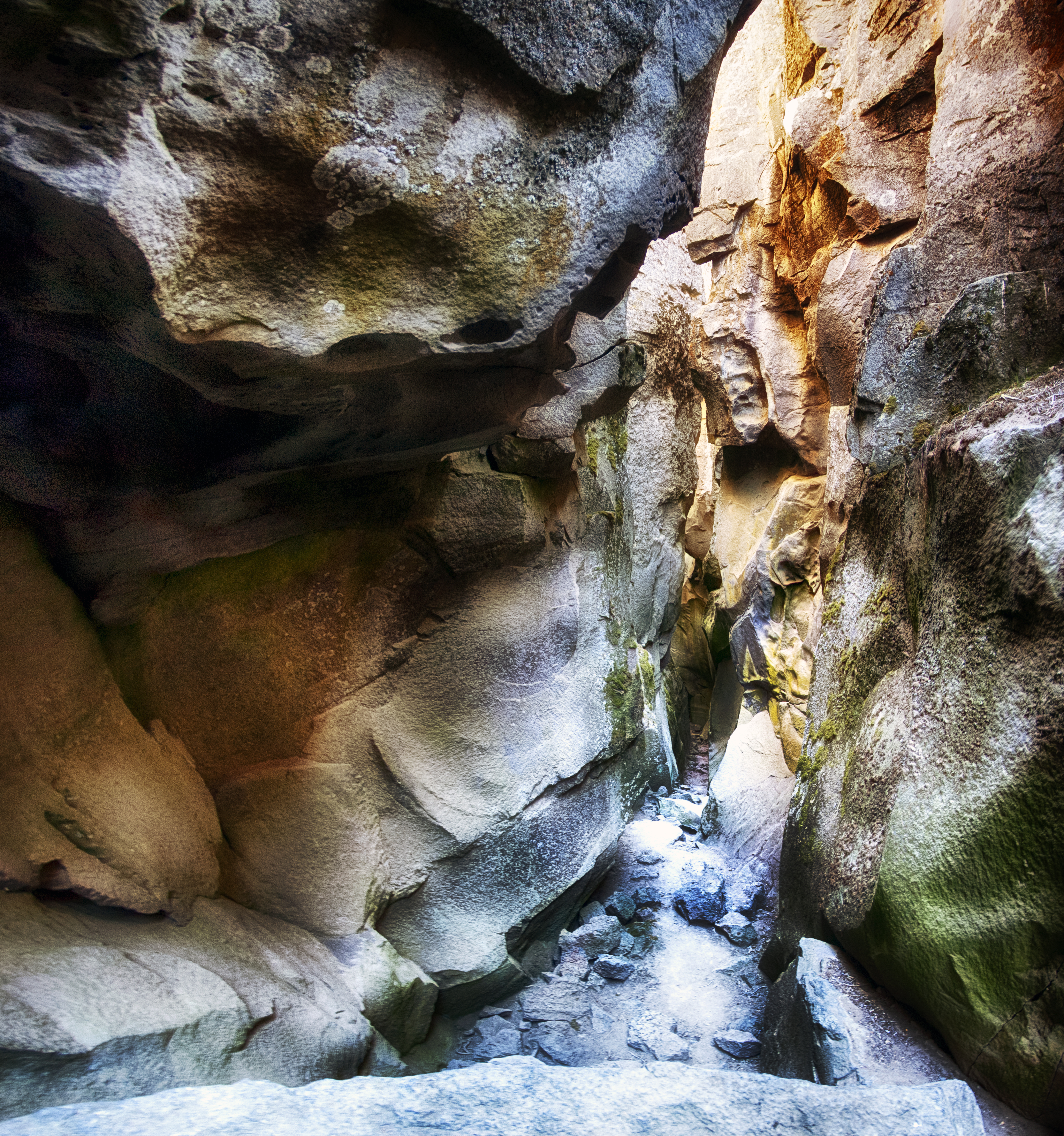 Crack in the Ground is a volcanic fissure over two miles long and up to 70 feet deep in Lake County Oregon. The length of the fissure can be hiked as there is an established trail along the fissure's bottom. Normally fissures like this one are filled in with soil and rock by the processes of erosion and sedimentation, but because Crack in the Ground is located in such an arid region, very little filling has occurred. As a result, Crack in the Ground exists today nearly as it did shortly after its formation. When you get there it is easy to cool off as the bottom of the crack can be up to twenty degrees lower than the surface temperature. For more information and to plan your visit